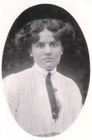 Dora Boothby Geen (1881-1970), English tennis and Badminton player, Wimbledon champion 1909